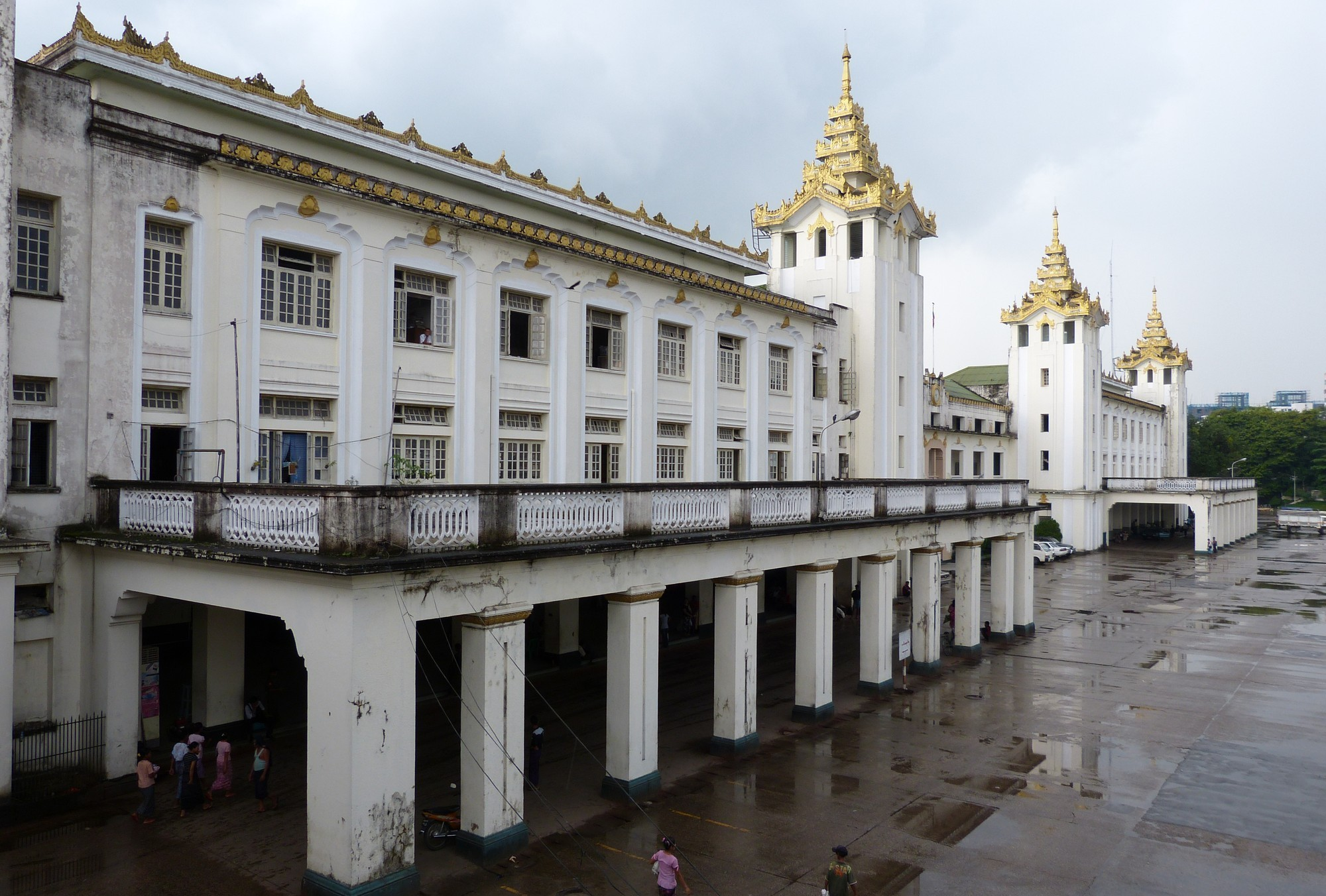 Central railway station, Yangon